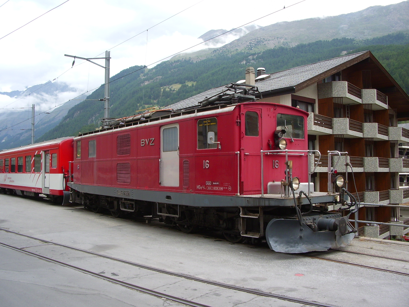 HGe 4/4 I No. 16 at Zermatt